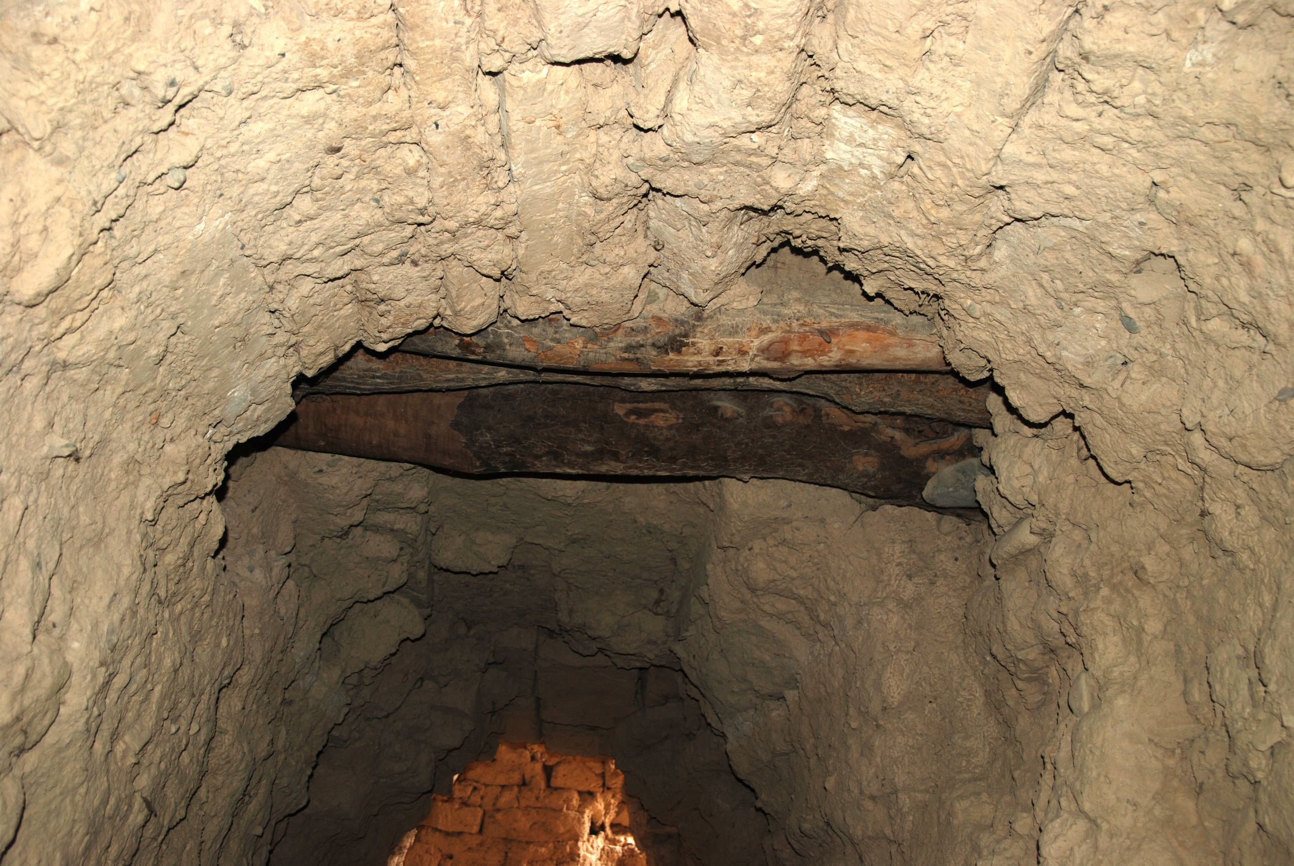 Jarkutan, Sughd province, Chilhujra